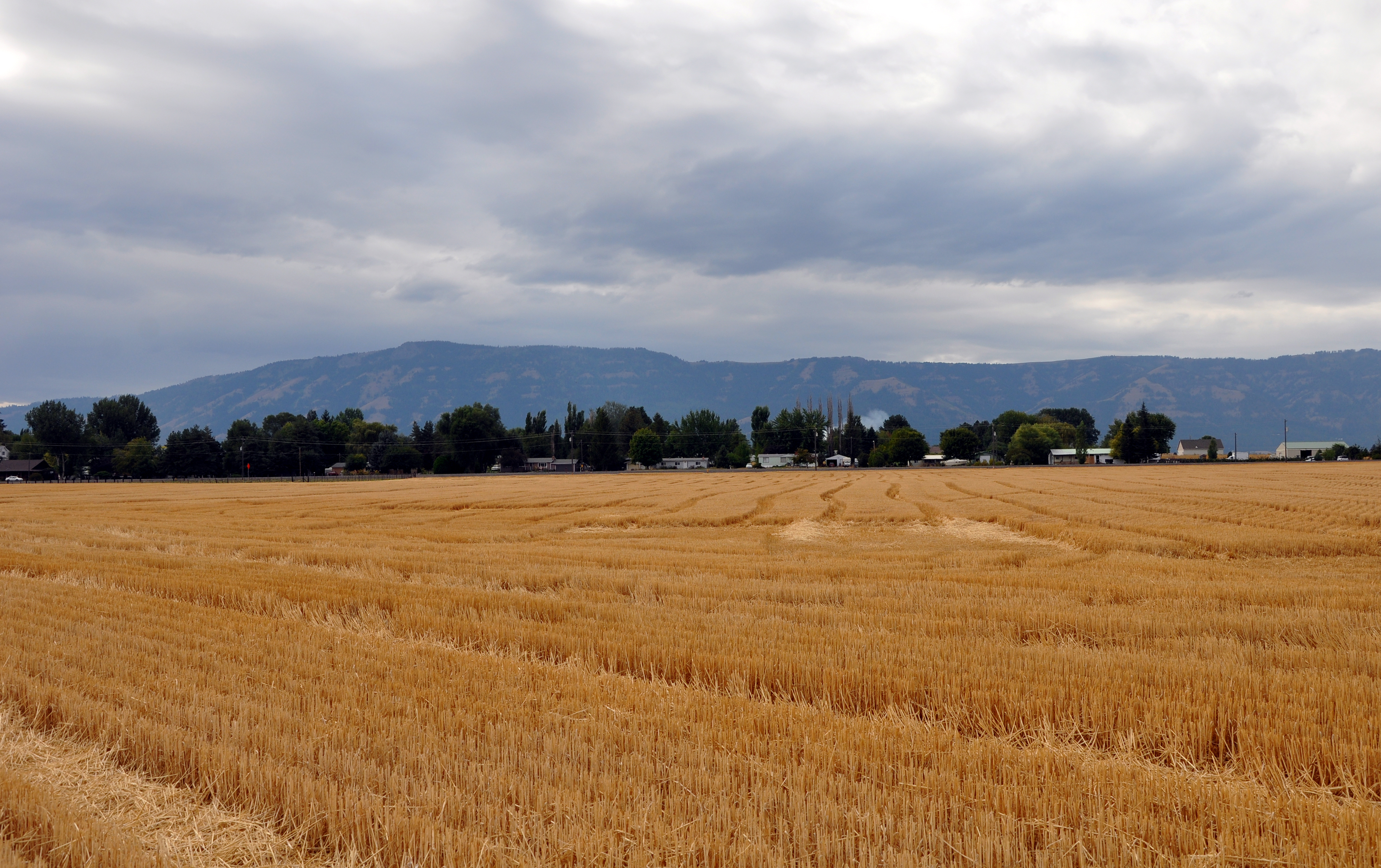 Fields near Imbler, Oregon, in the United States. Imbler in middle ground, Blue Mountains in background.